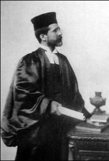 photo